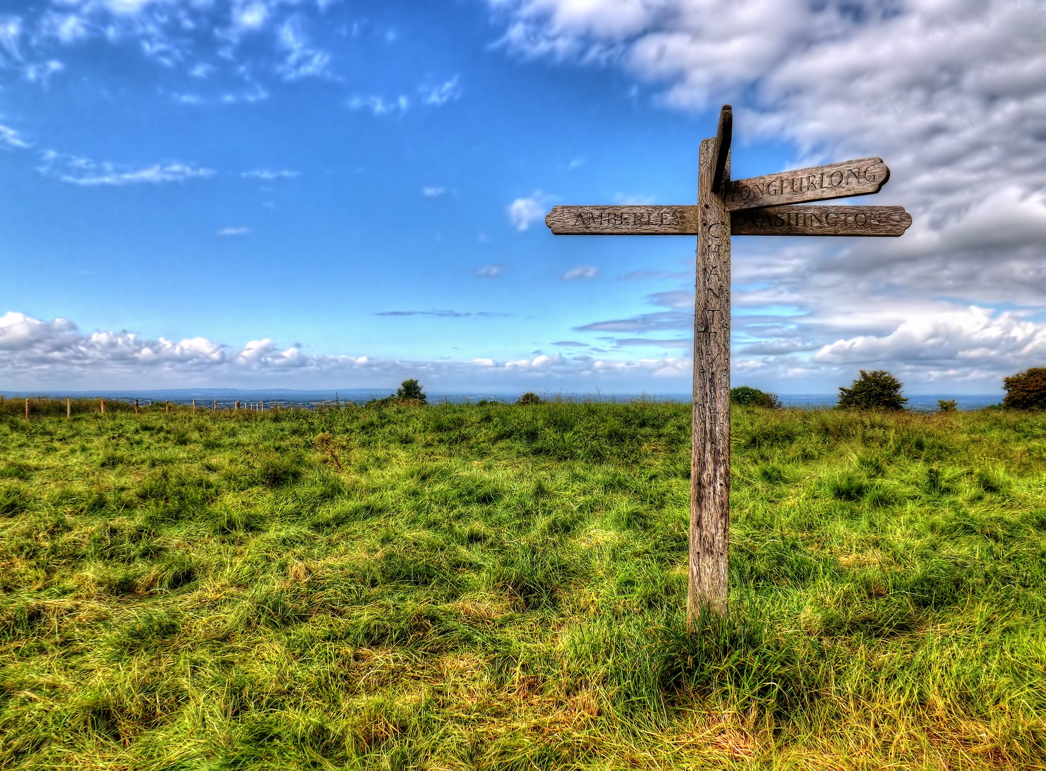 A multi directional signpost on the South Downs Way path. Chantry Hill, Storrington West Sussex.